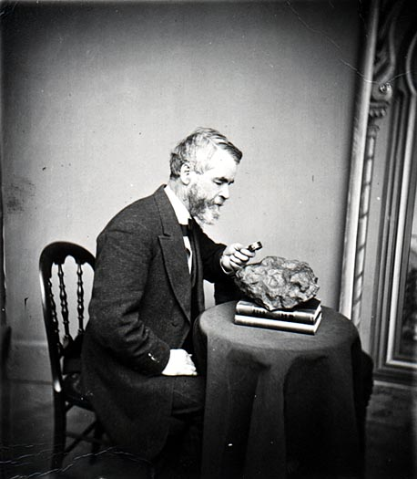 Increase Lapham examining Trenton meteorite which had recently fallen in Wisconsin in en:1868 From the Wisconsin Electronic Reader Image Gallery - Lapham.